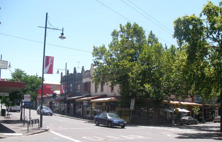 Corner of Bellair and Macauley Streets. The commercial centre of Kensington, Victoria.